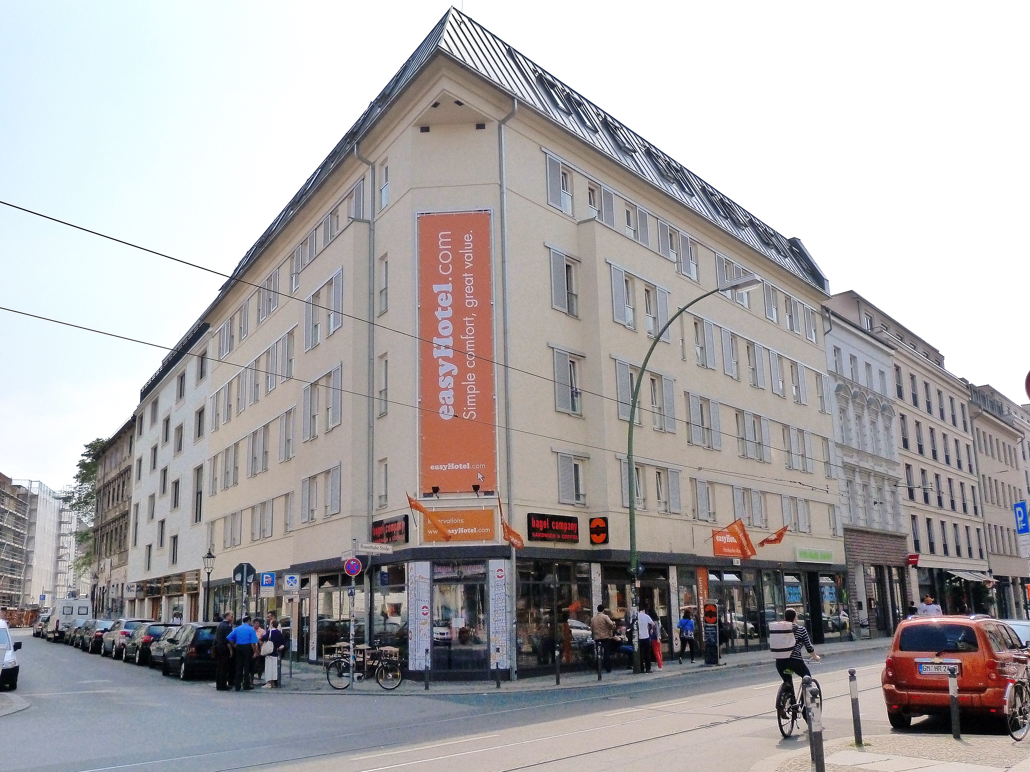 Easy Hotel in Berlin Hackescher Markt